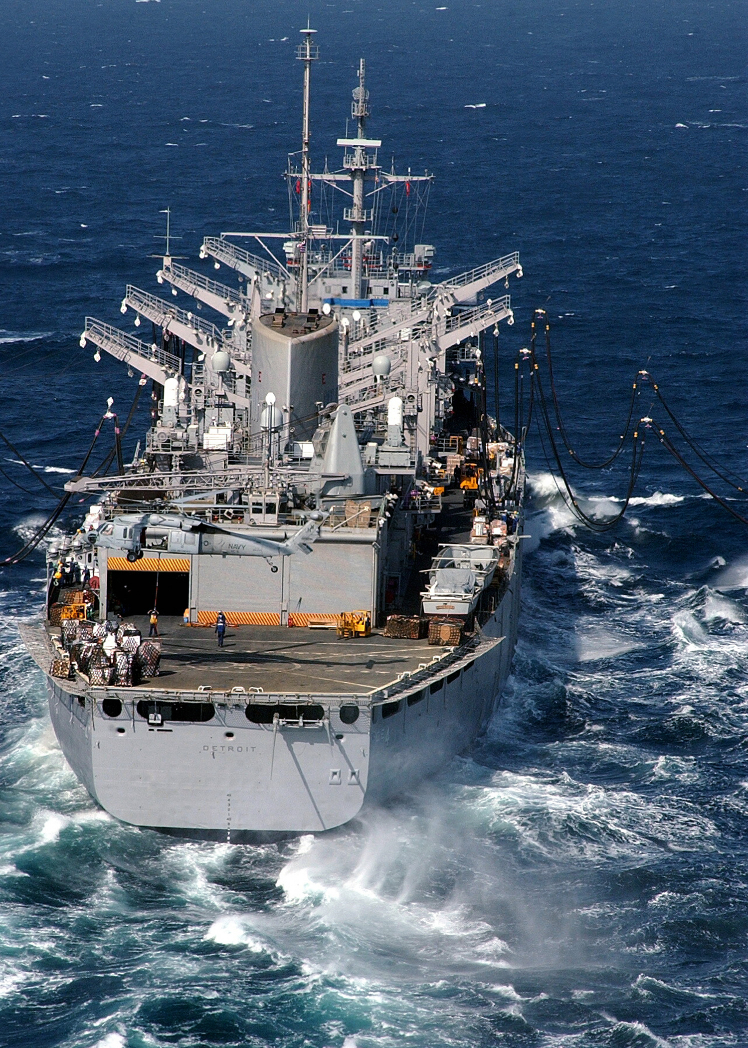 Arabian Gulf (Jan 27, 2004) – An MH-60S Knighthawk assigned to the “Chargers” of Helicopter Combat Support Squadron Six (HC-6), lifts cargo from the flight deck of the fast combat support ship USS Detroit (AOE 4) for transfer to USS Enterprise (CVN 65) during a vertical replenishment. The MH-60S Knighthawk is designed to support the Navy's Helicopter Master Plan and meet Fleet Combat Support Aircraft mission requierments. The MH-60S is an amalgam of the Sikorsky UH-60L Black Hawk helicopter and its Navy variant, the SH-60B Seahawk. The Black Hawk airframe provides the larger cabin volume and features required for cargo and passenger transport, and the Seahawk offers unique naval capabilities required to operate aboard ship. MH-60S helicopter missions include Vertical Replenishment, Combat Search and Rescue, Special Warfare Support and Airborne Mine Countermeasures. U.S. Navy photo by Photographer's Mate Airman Joshua E. Helgeson. (RELEASED)